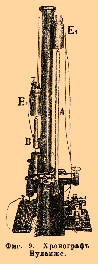 Illustration from Brockhaus and Efron Encyclopedic Dictionary (1890—1907)